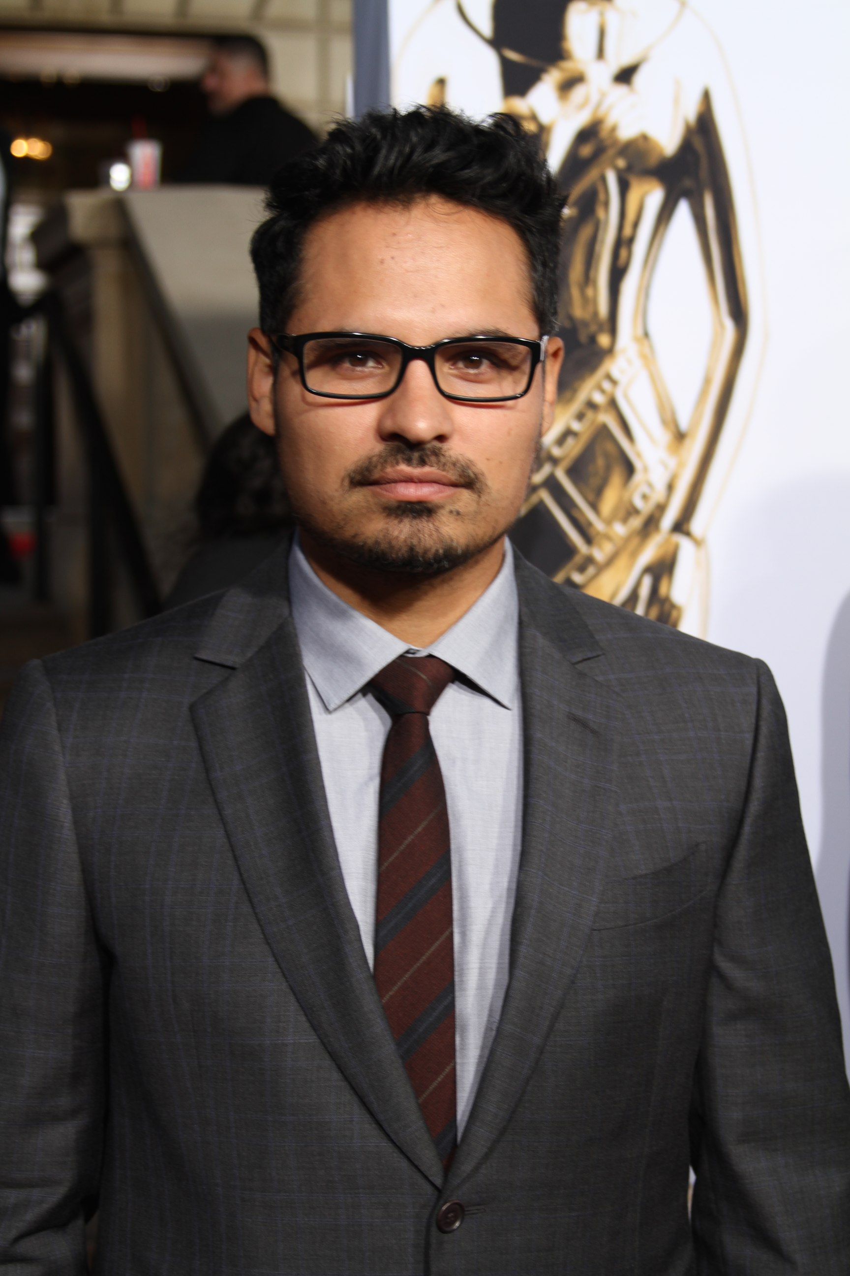 Actor Michael Peña at the 2014 Alma Awards